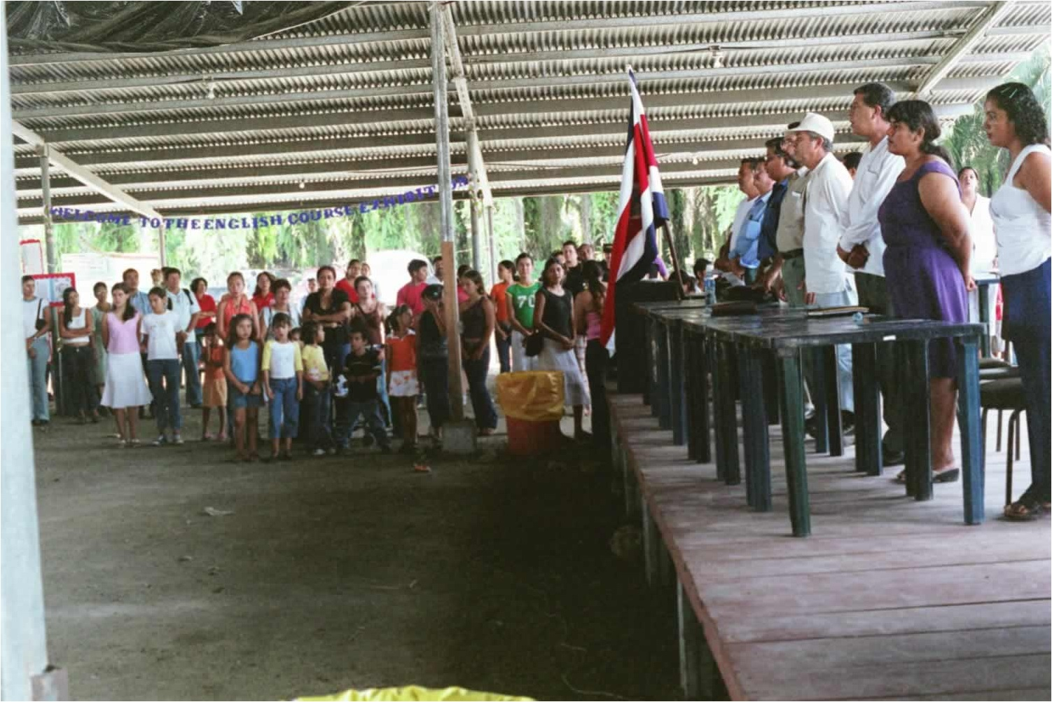 Closing Ceremony Laurel OW Costa Rica 2005 with 543 participants